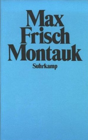 Book cover of Max Frisch "Montauk" 1975